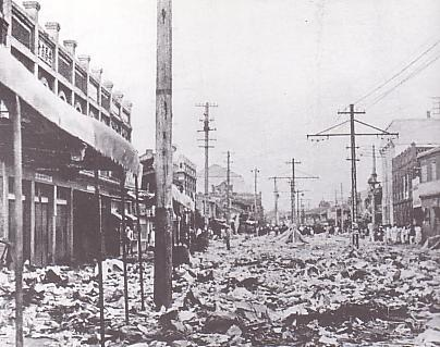 Anti-China riot in Heijo(Pyongyang)